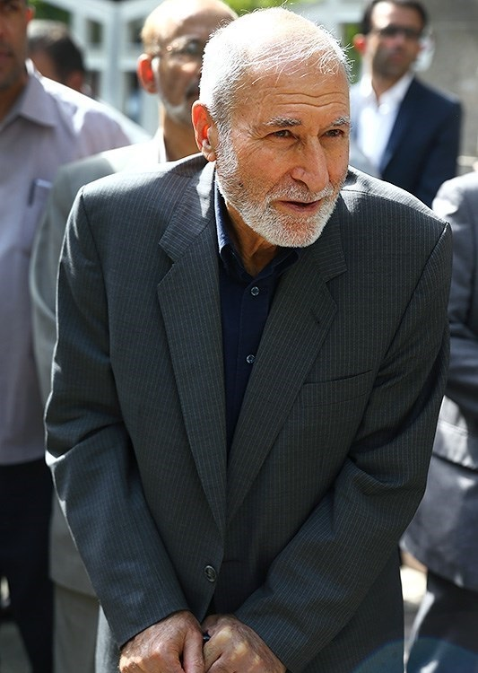 Behzad Nabavi